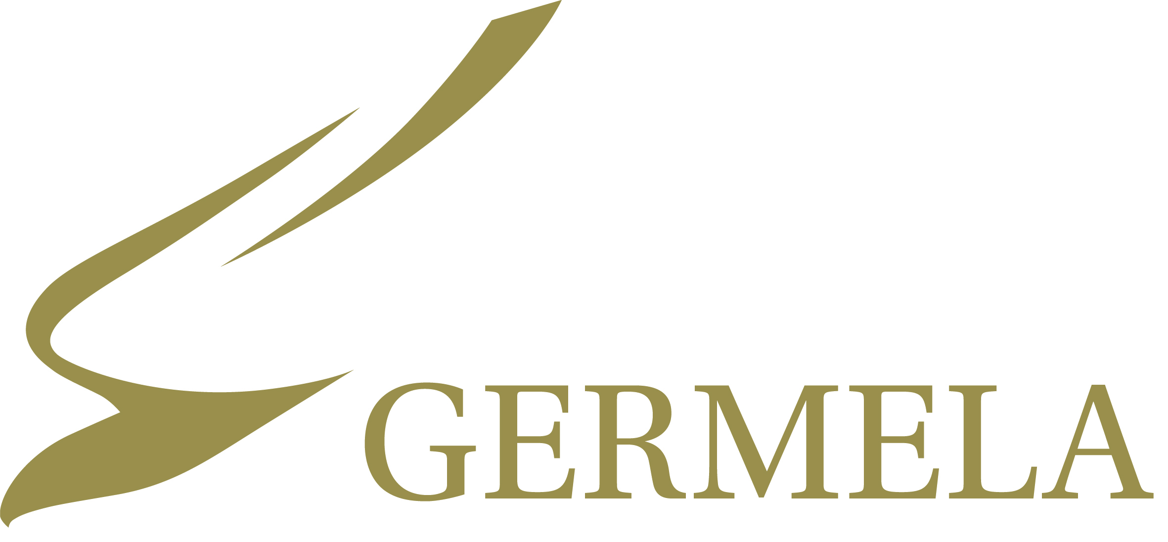 GERMELA logo